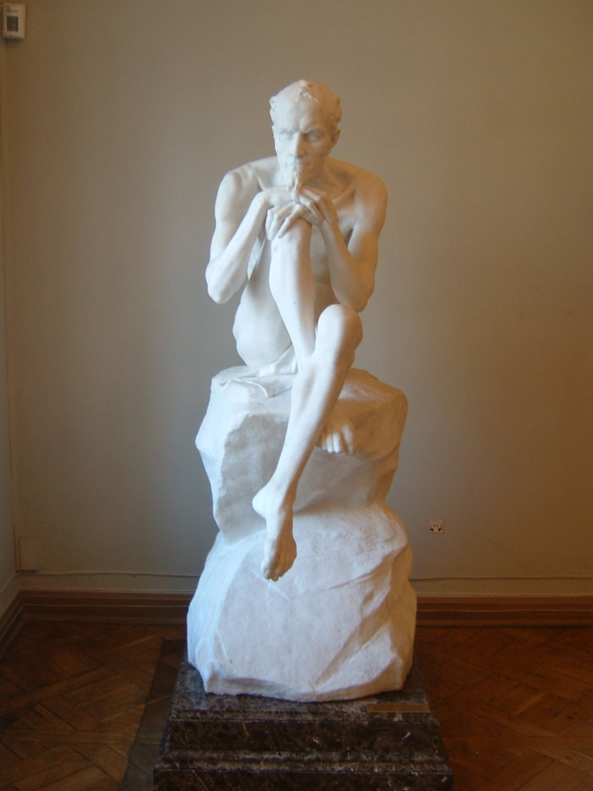 Mark Antokolski Mephistopheles The Russian Museum, photography is mine